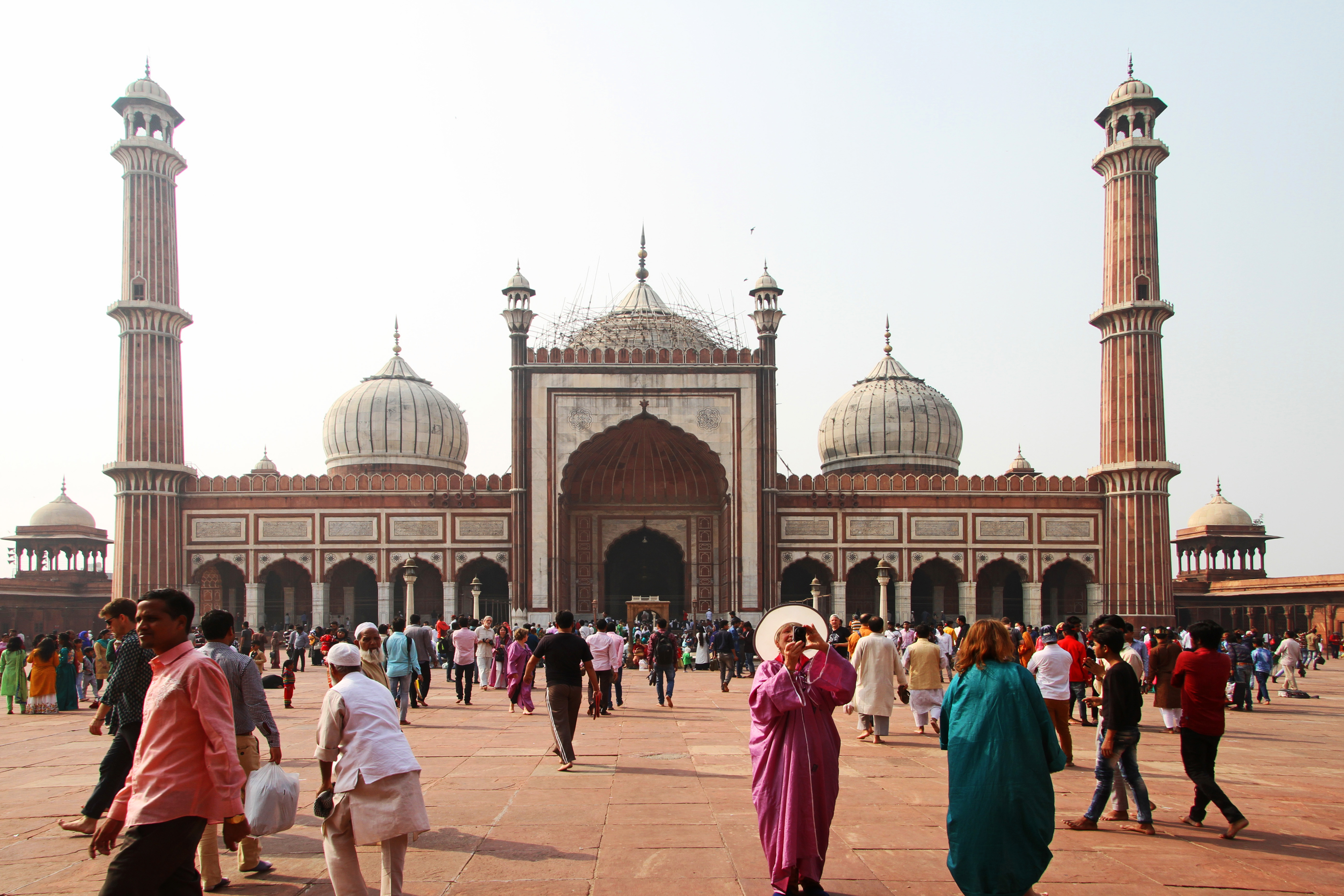 Jama Masjid, Delhi